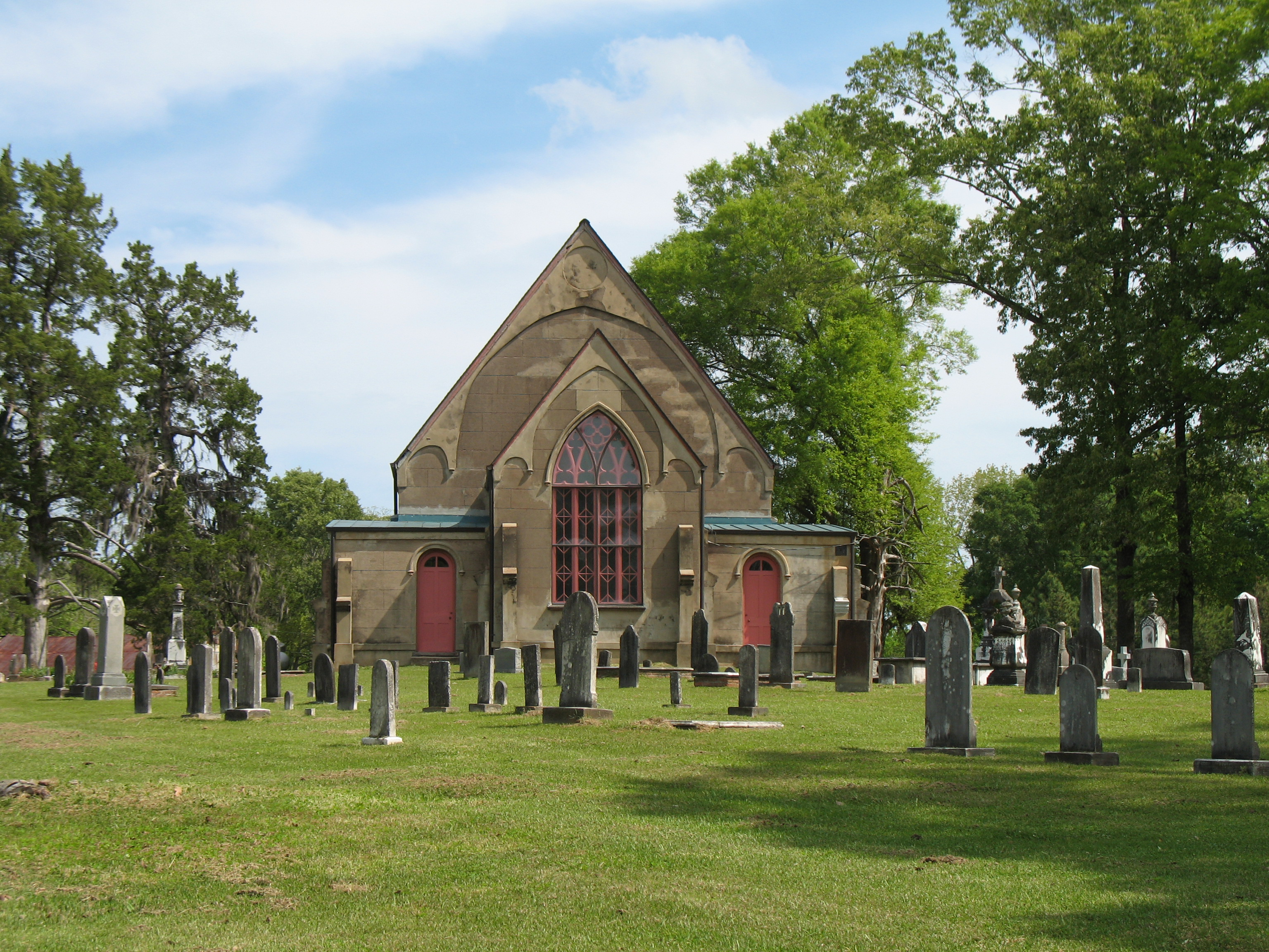 Church Hill Cemetery, Christ Episcopal Church, Church Hill (Jefferson County), Mississippi.